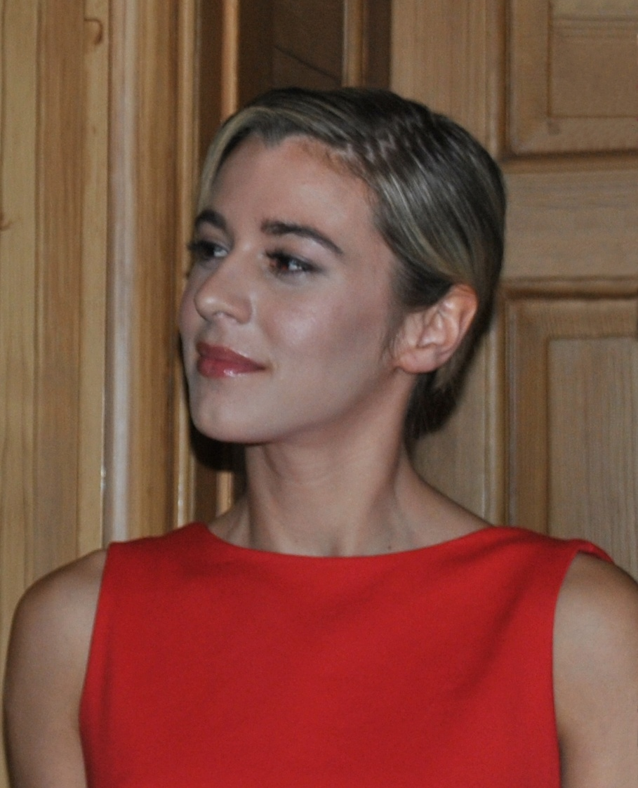 Victoria Atkin at an LGTB reception at No10 to launch new campaign to kick homophobia and transphobia out of sport.